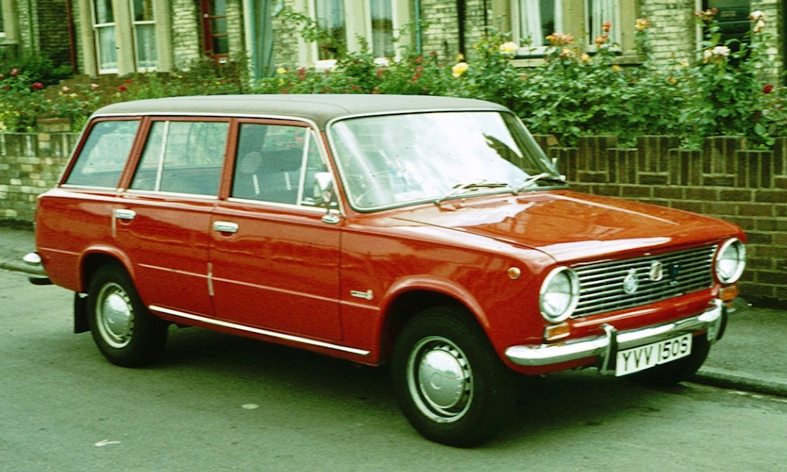 Lada 2102 (UK nomenclature) estate in Cambridge registered 01 May 1978 1198cc "untaxed" since 1988